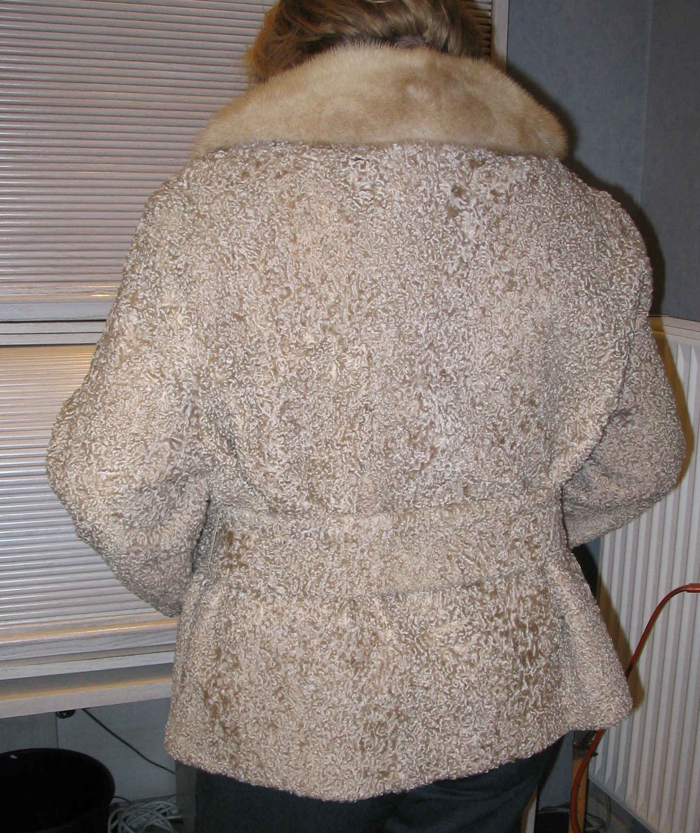 Bueno fur jacket with mink collar